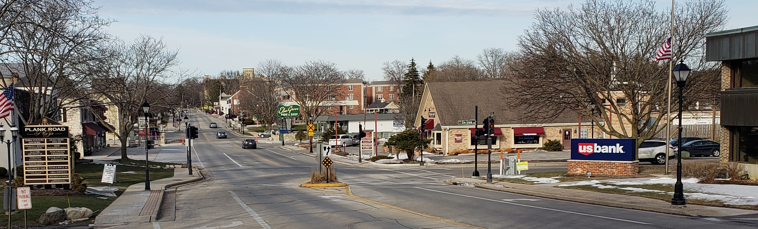 Downtown Elm Grove, Wisconsin, looking east on Watertown Plank Road